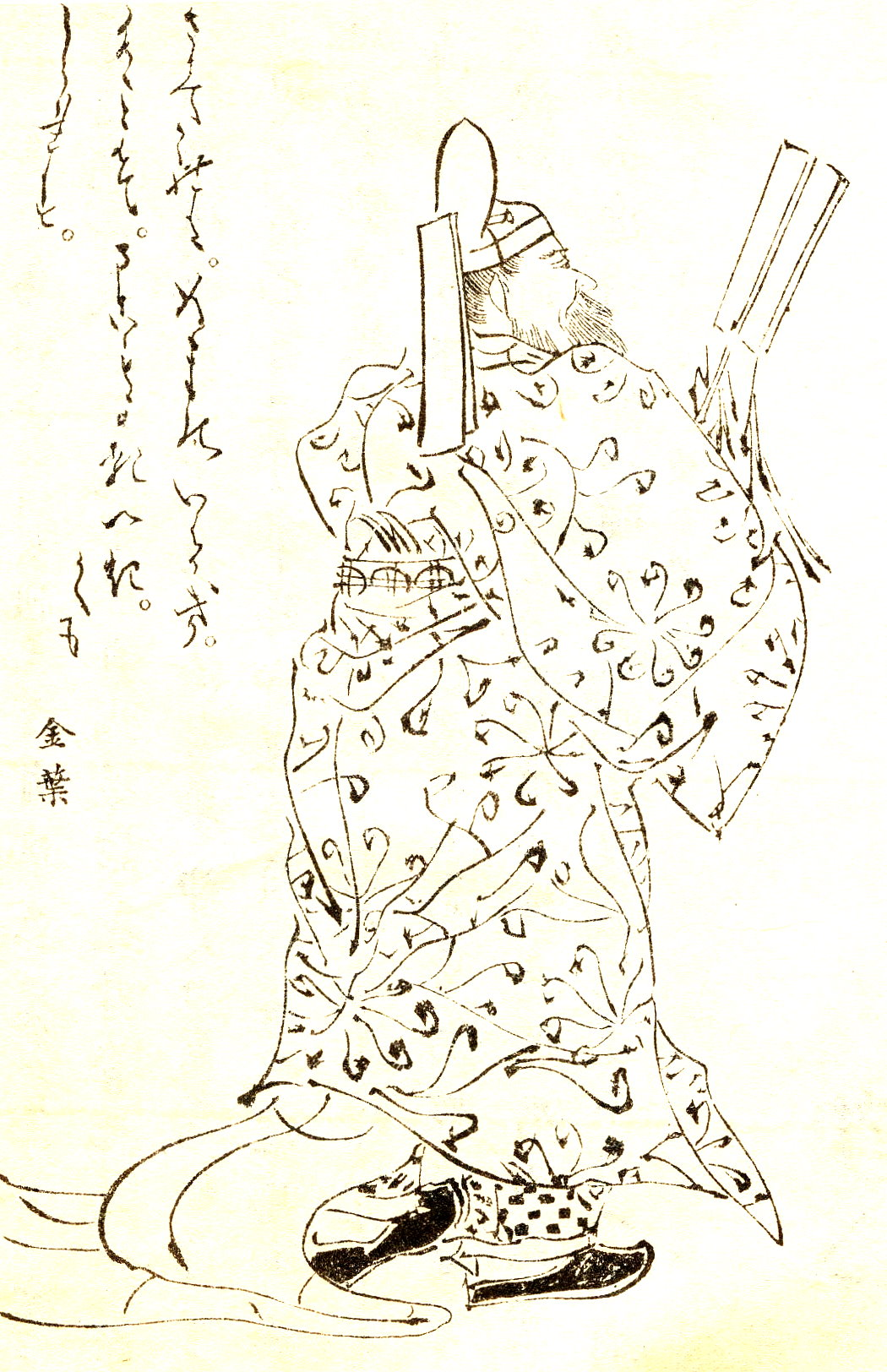 Minamoto no Moroyori(源師頼) was a japanese court noble and poet in Heian period.